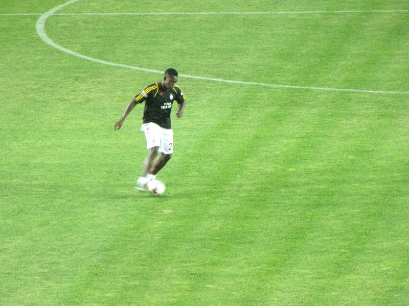 Galatasaray-Tobol European Cup 23.07.2009